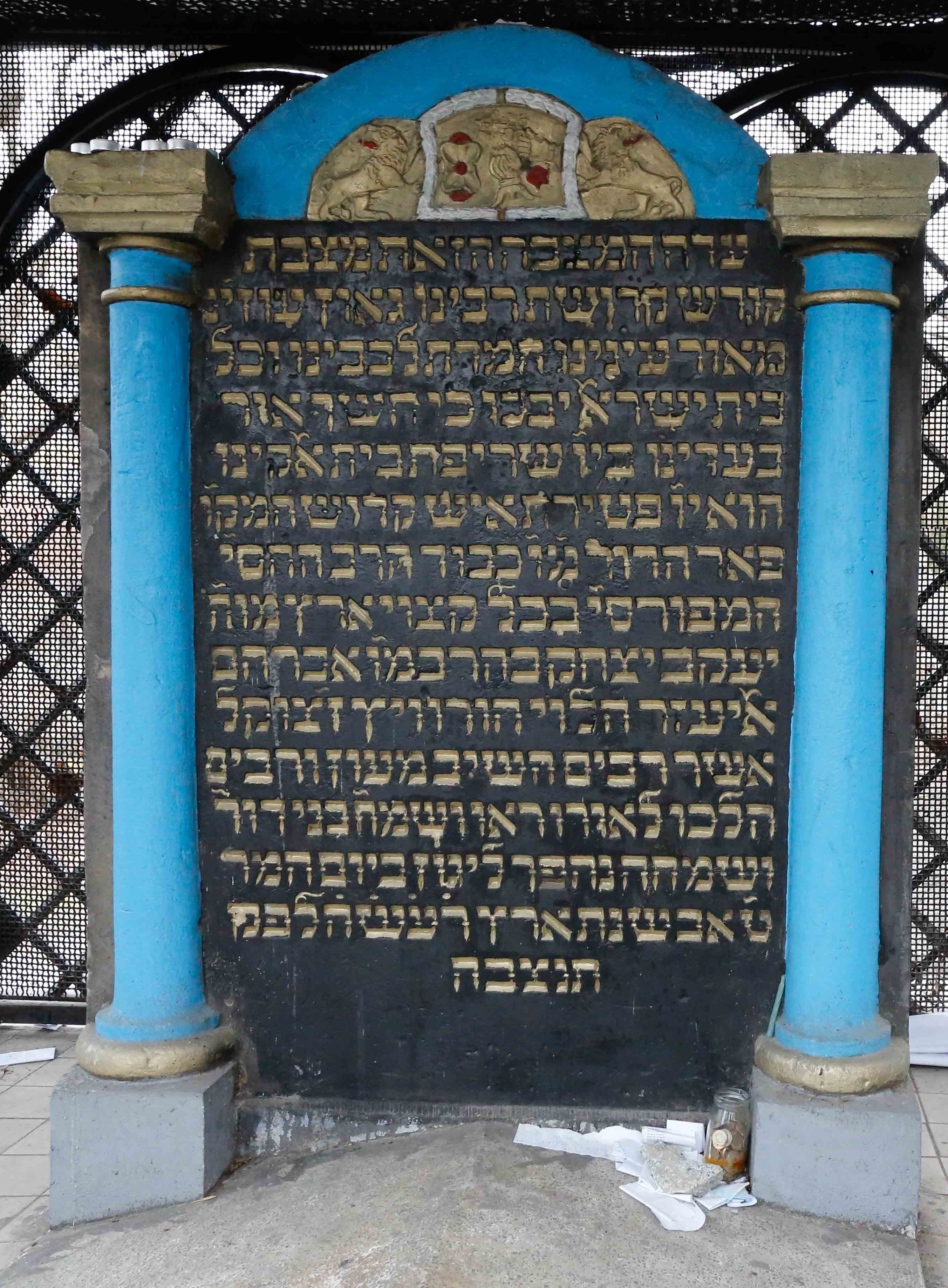 Old Jewish Cemetery in Lublin, Poland. Matzevah of Yaakov Yitzchak of Lublin - The Chozeh